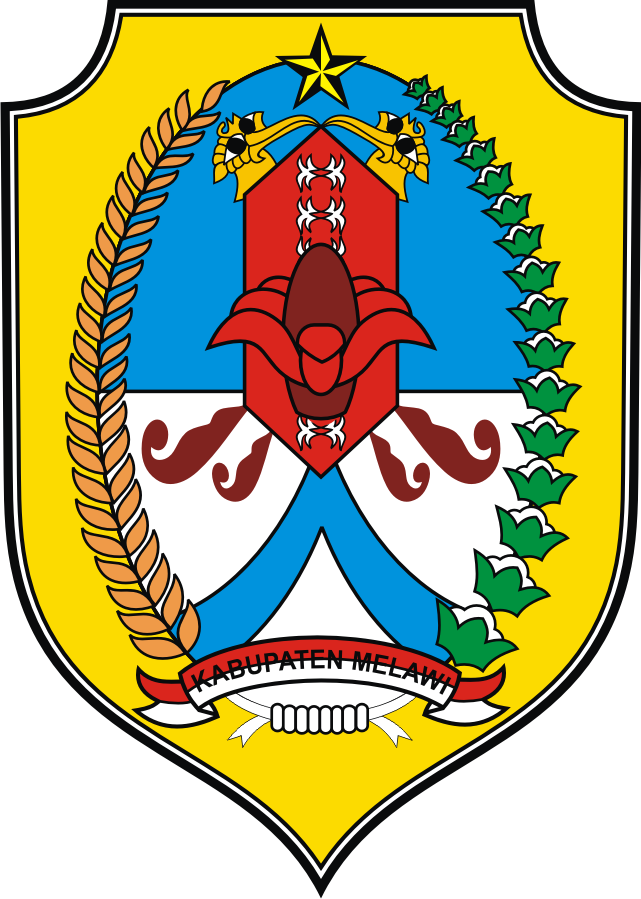 Lambang (Coat of Arms) of Kabupaten (Regency) Melawi, provinsi Kalimantan Barat (West Kalimantan Province (Borneo)), Indonesia